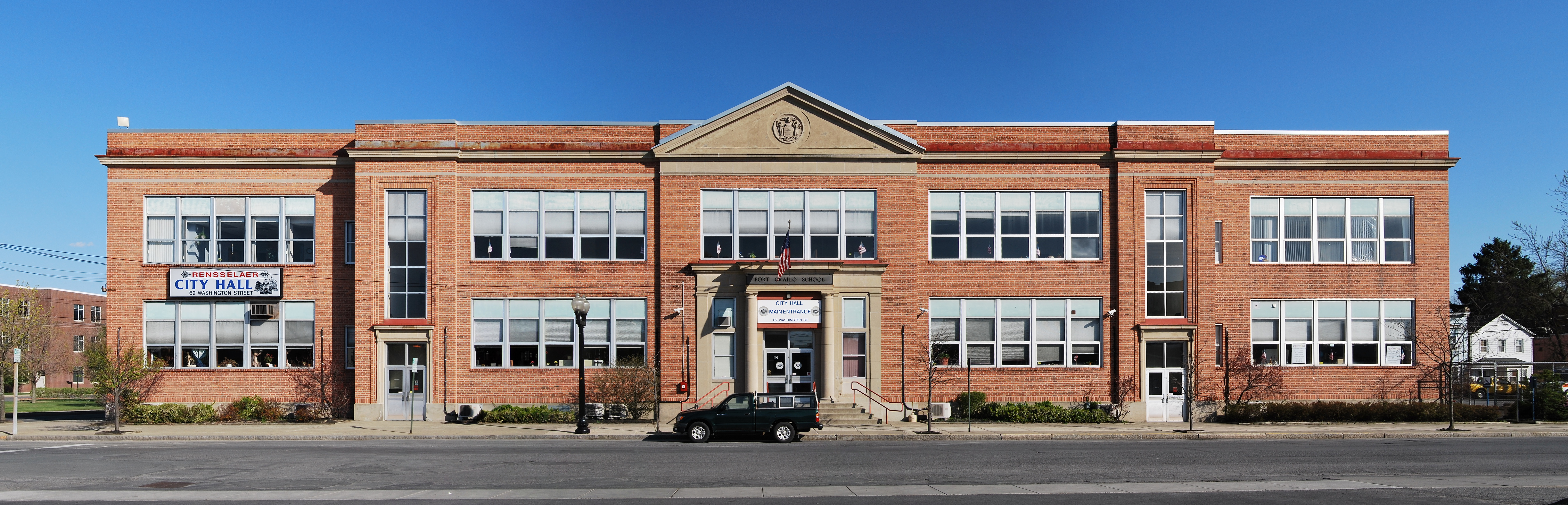 City Hall of the city of Rensselaer, New York, United States